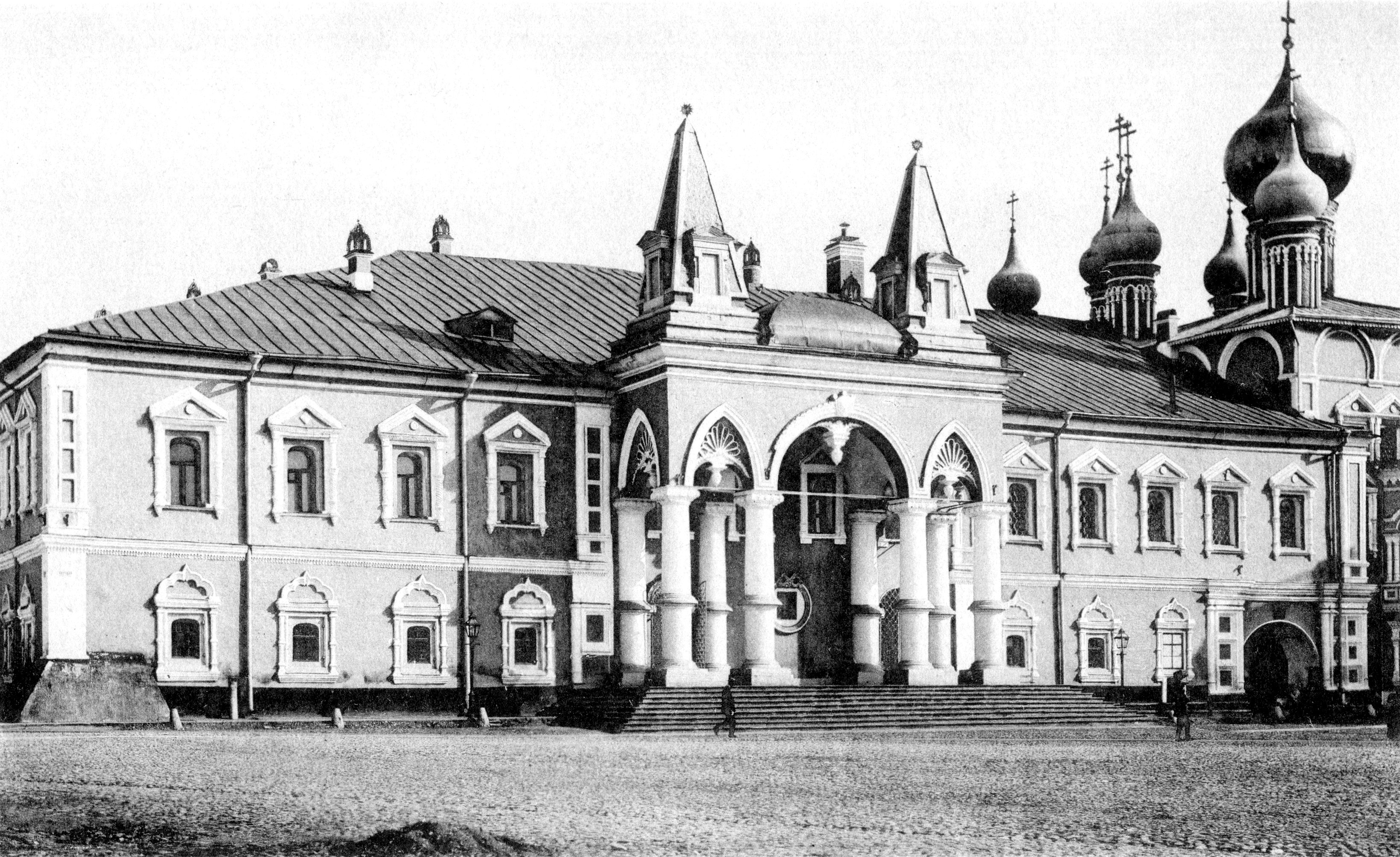 Chudov monastery at edge of XIX and XX cent.